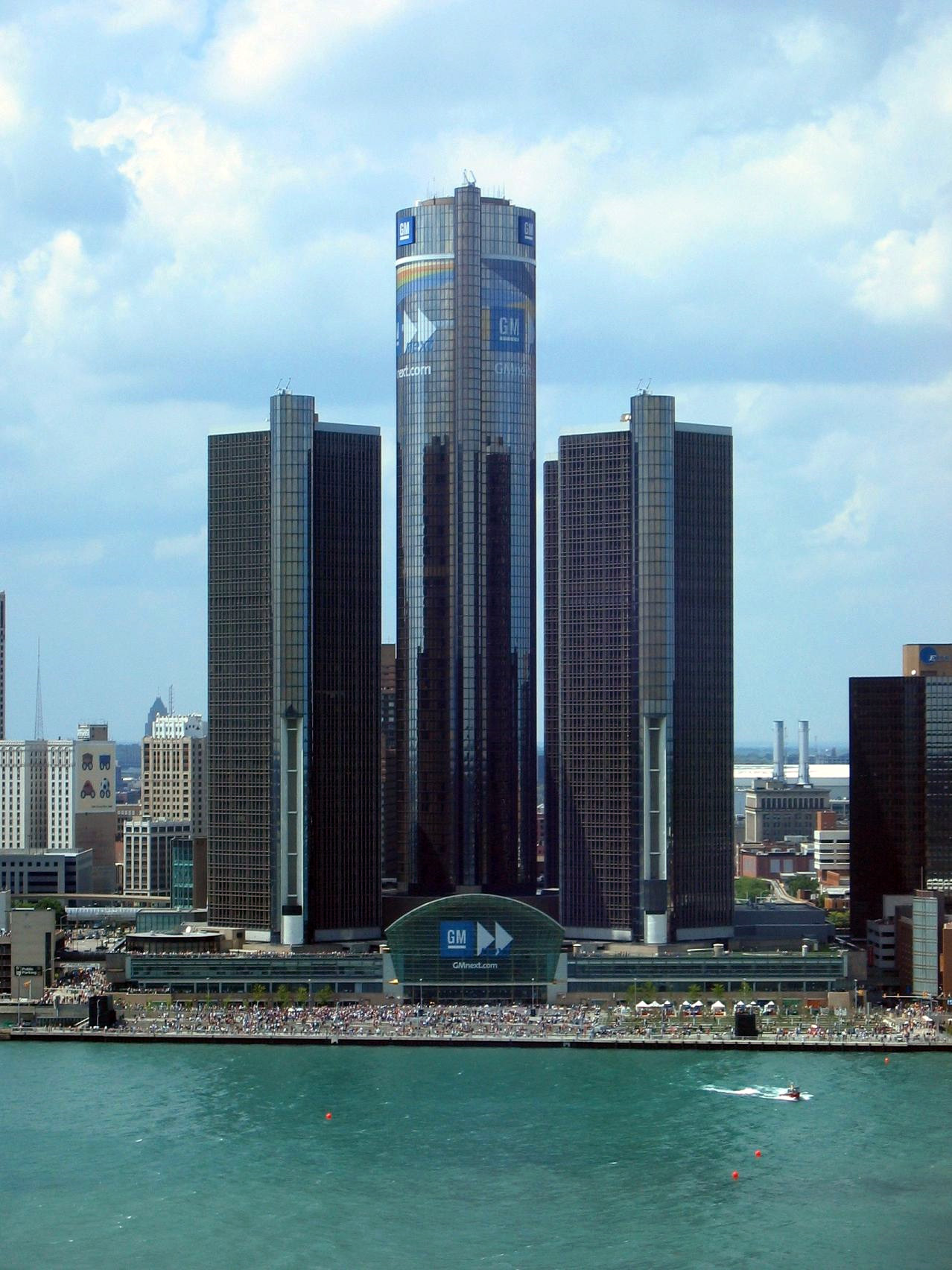 The Detroit International Riverfront. Behind is the Renaissance Center, GM World Headquarters, Detroit, Michigan.